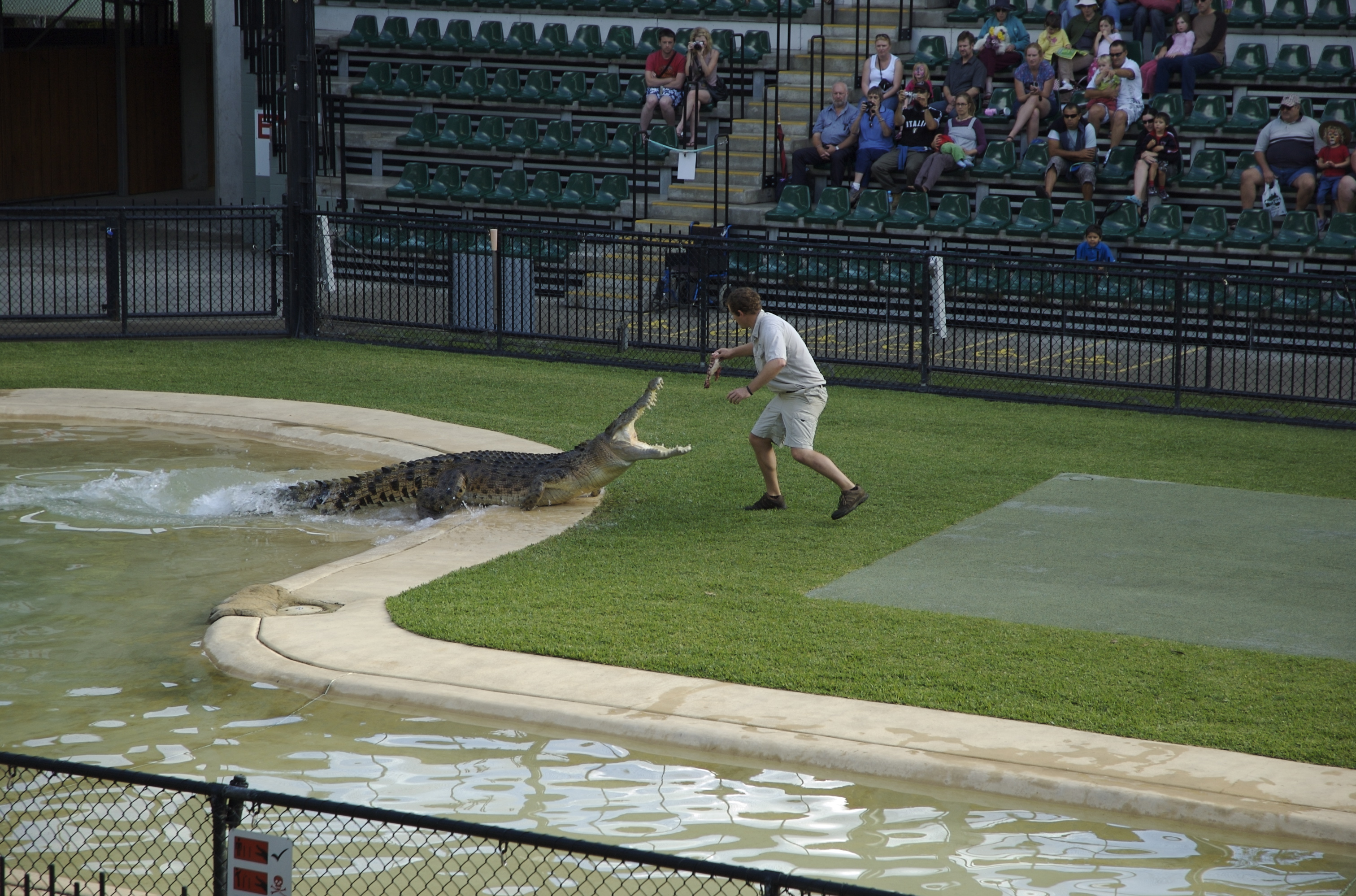 Australia Zoo is located in the Australian state of Queensland on the Sunshine Coast near Beerwah/Glass House Mountains. It is owned by Terri Irwin, who is the widow of Steve Irwin, whose wildlife documentary series The Crocodile Hunter made the zoo a popular tourist attraction. Although best known for the crocodiles and the live crocodile feedings, the zoo is also known for featuring exhibits of other Australian wildlife, including koalas, wombats, Tasmanian devils, snakes, and (until 2006) a giant Galapagos tortoise called Harriet, who was generally acknowledged as the world's oldest living chelonian when she died on June 23, 2006, at the age of 176.[1] The Zoo also features a smaller selection of animals from around the world, including elephants, tigers, cheetahs and Komodo Dragons, along with a wide range of birds.